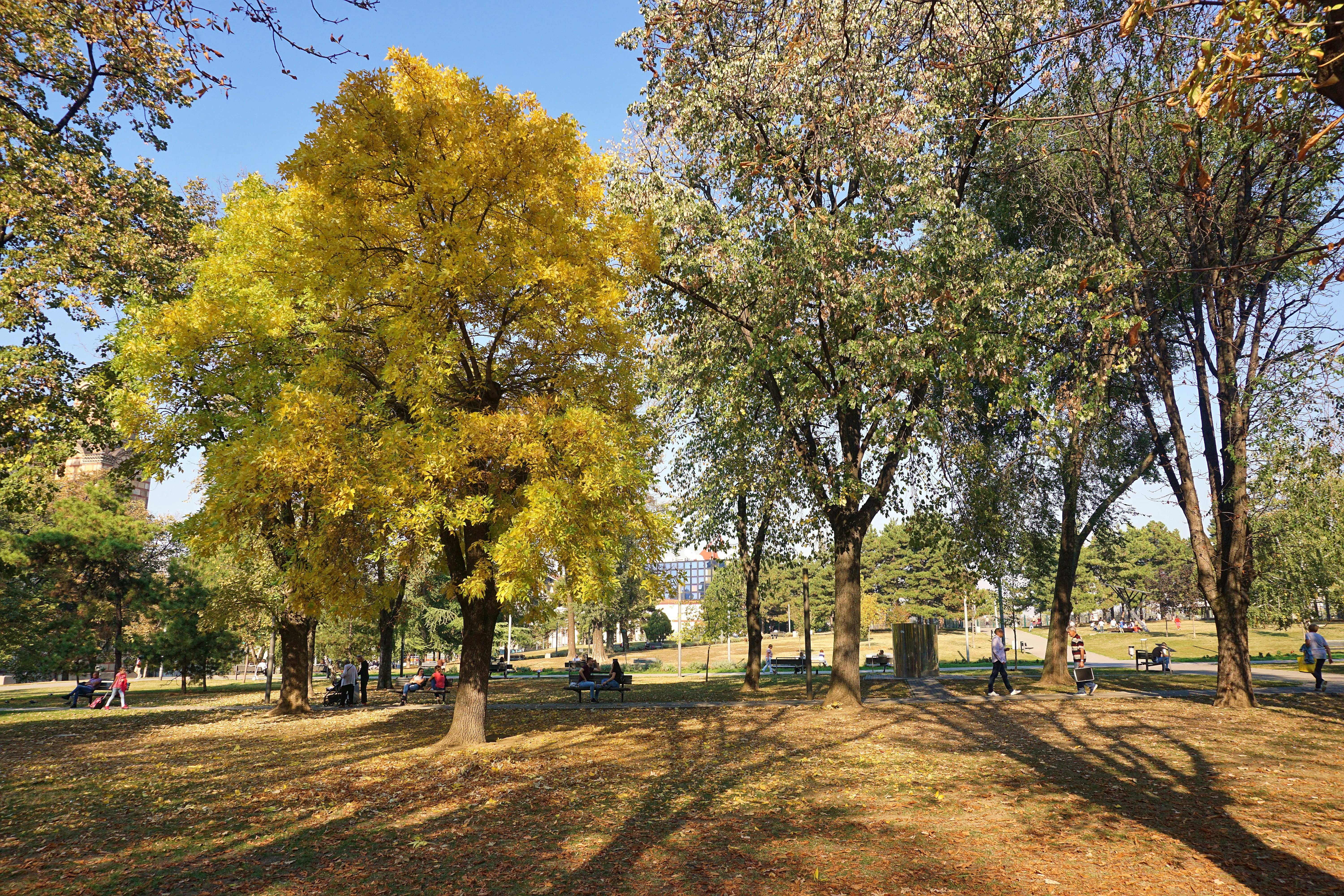 Tašmajdan Park